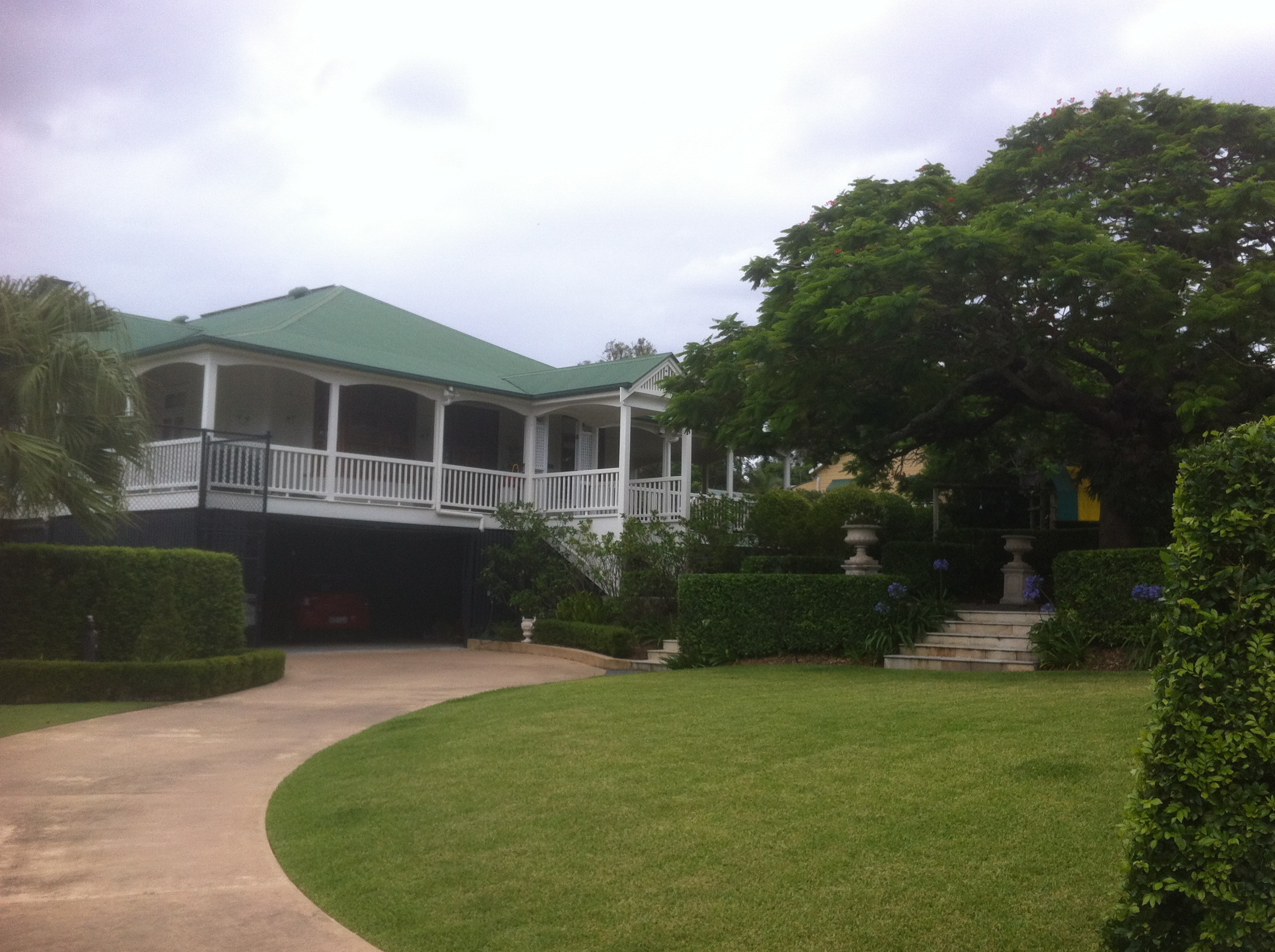 The house at 29 Murray Street is a well-known landmark in Brisbane because it was used for 40 years as a venue for weddings and other celebrations. It is listed on the Brisbane Heritage Register.